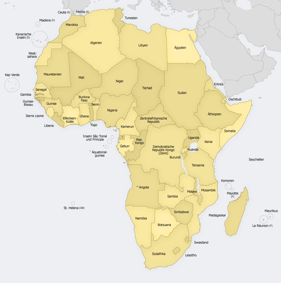 Political map of Africa, with label text in German